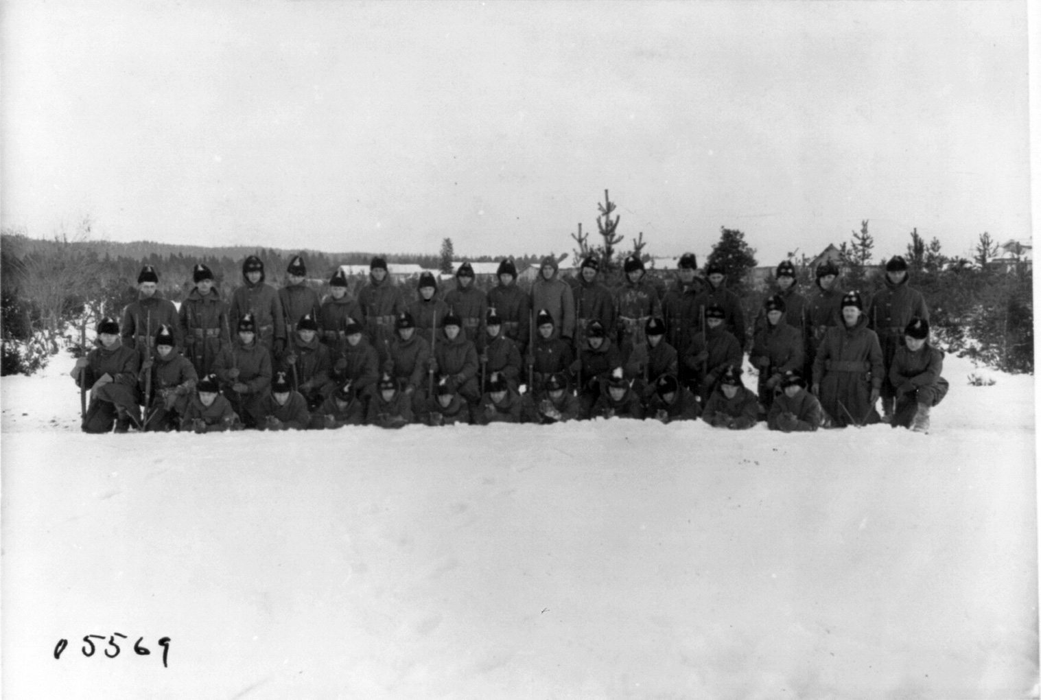 One platoon of Co. H. 339th Inf. North Russia. Expeditionary Force. North Russia